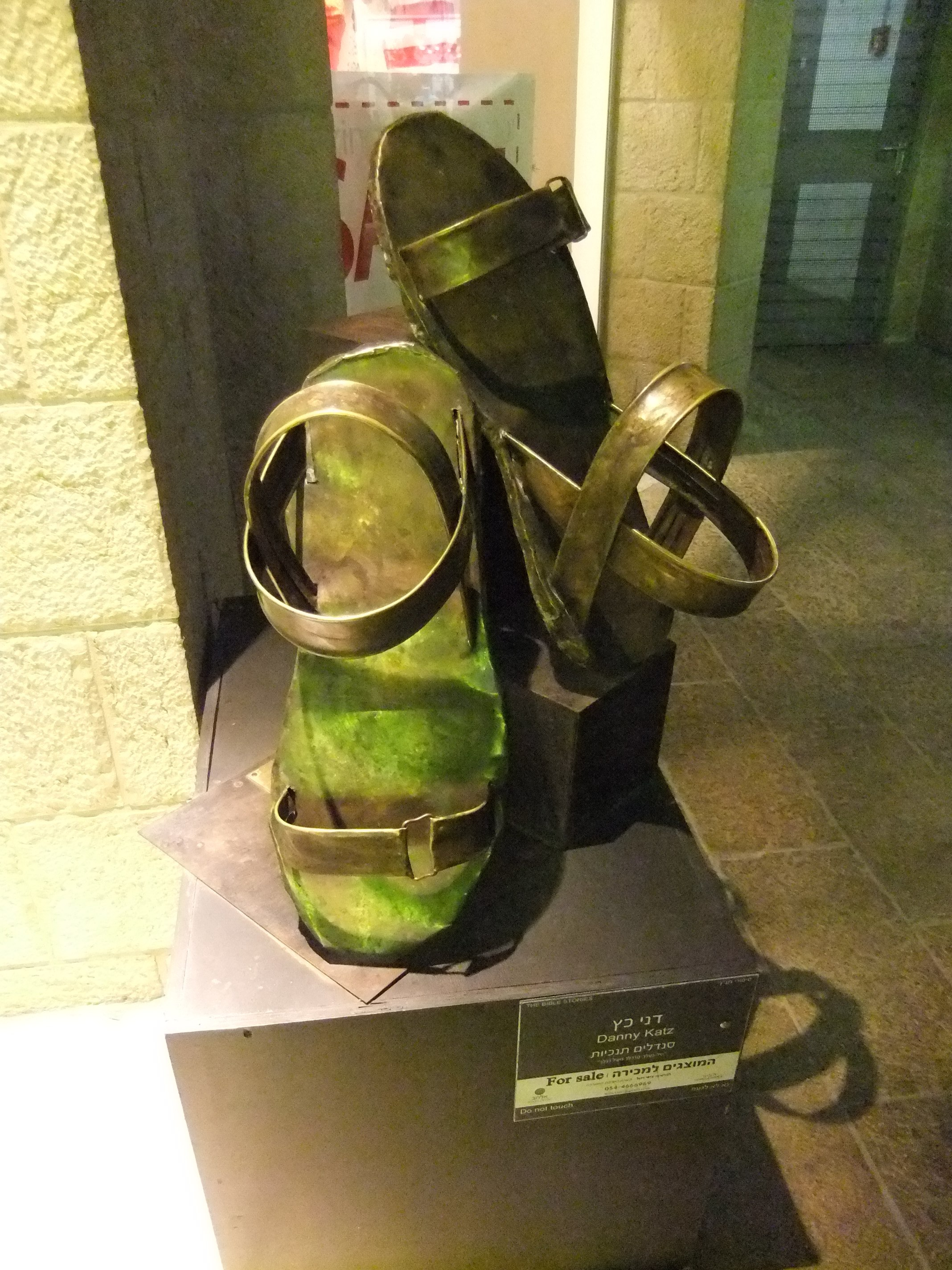 A statue of Biblical Sandals by Danny katz in a display of Biblical theme statues Mamila, Jerusalem